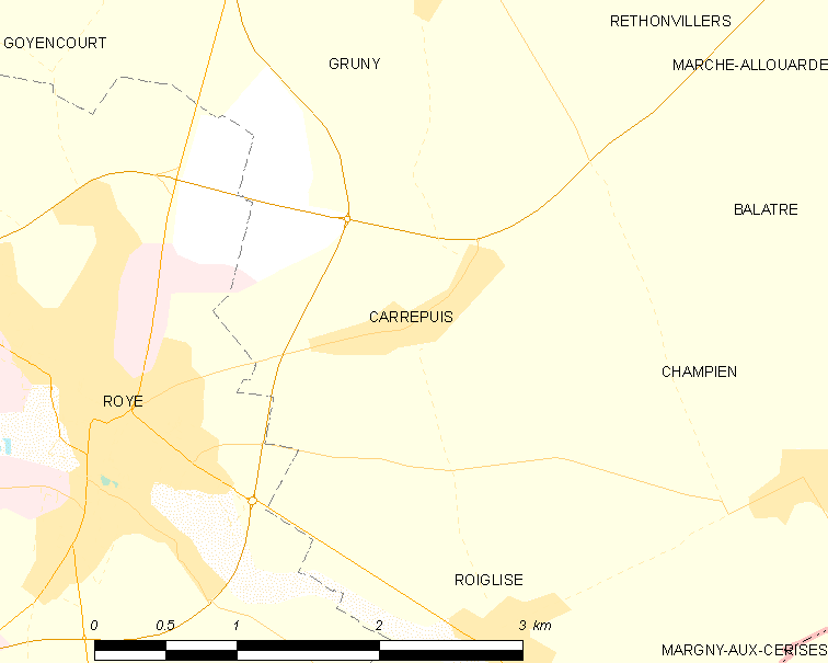 Map of French municipality Carrépuis